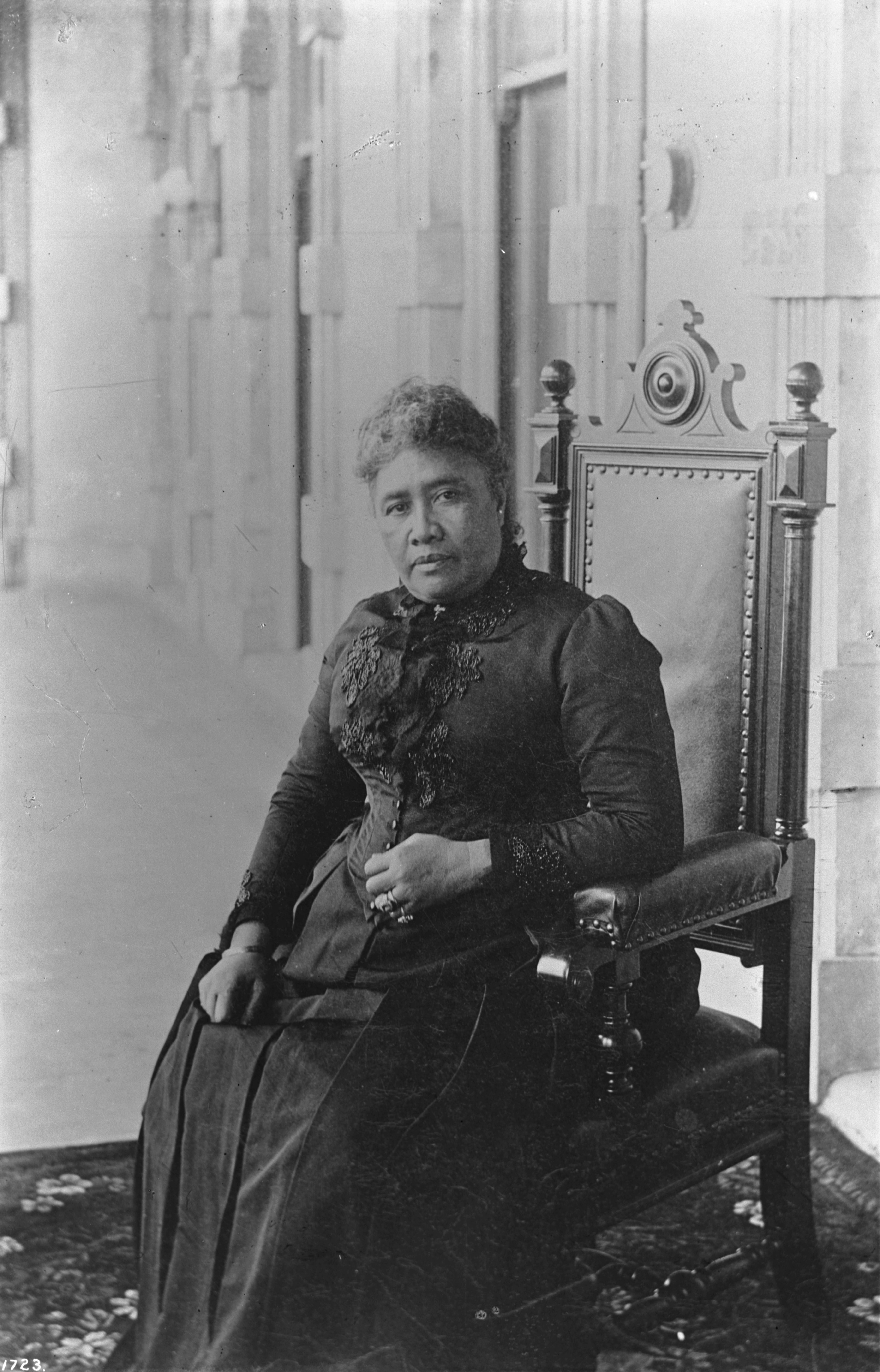 Photo of Liliuokalani taken in 1891 at the beginning of her reign at Iolani Palace [1]. This image was published before 1892